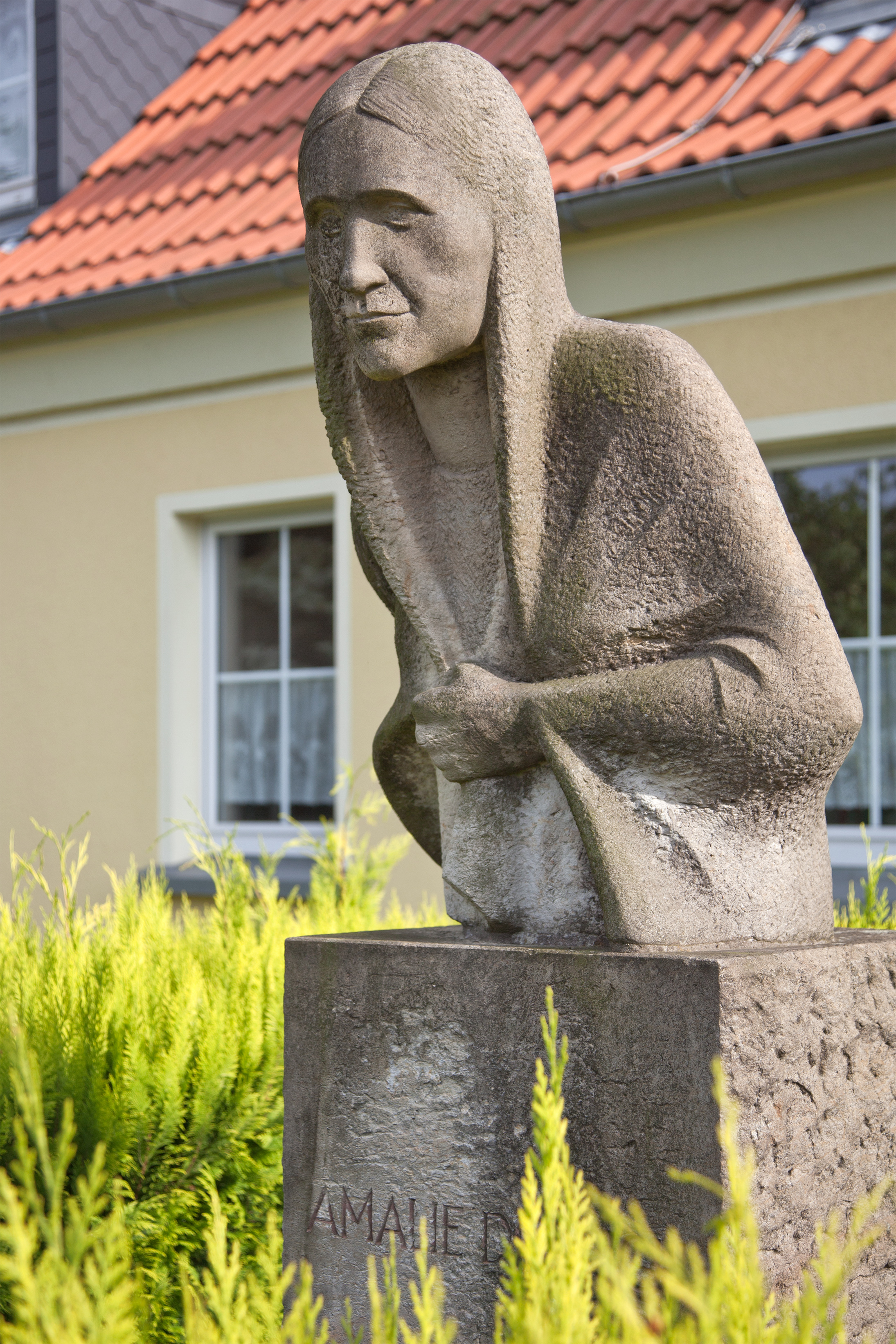 Monument to Amalie Dietrich in Siebenlehn, Saxony